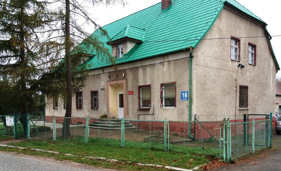 WOP Polanowice 1